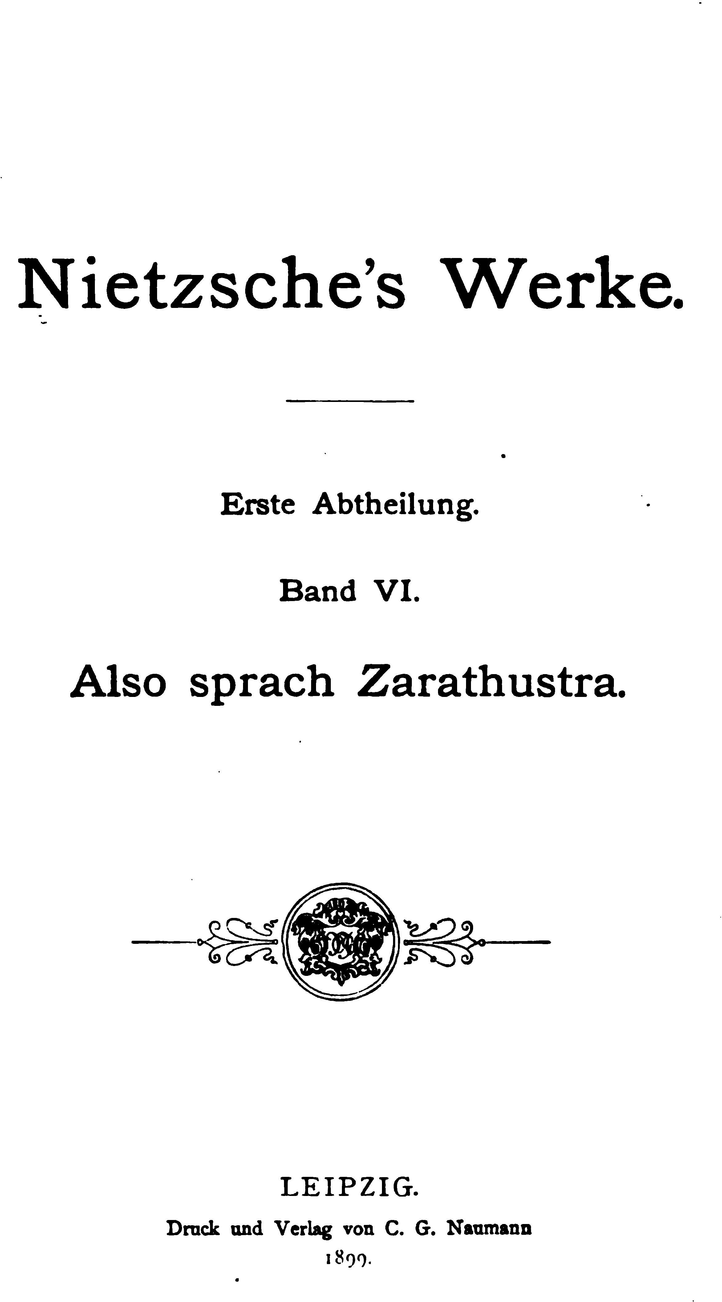 The complete works of Friedrich Nietzsche, Volume VI